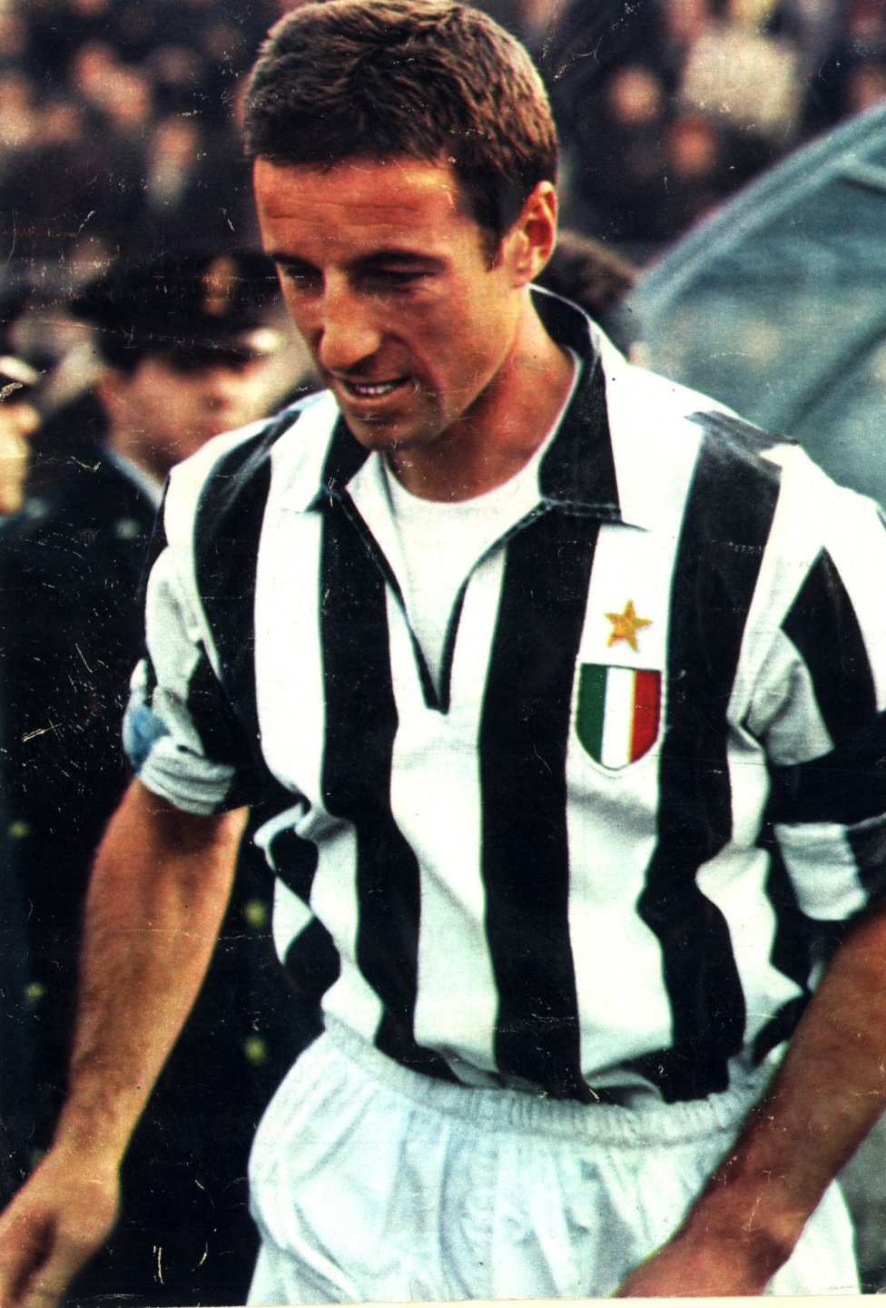 Italian footballer Ernesto Castano with Juventus F.C. in the 1967–68 season.